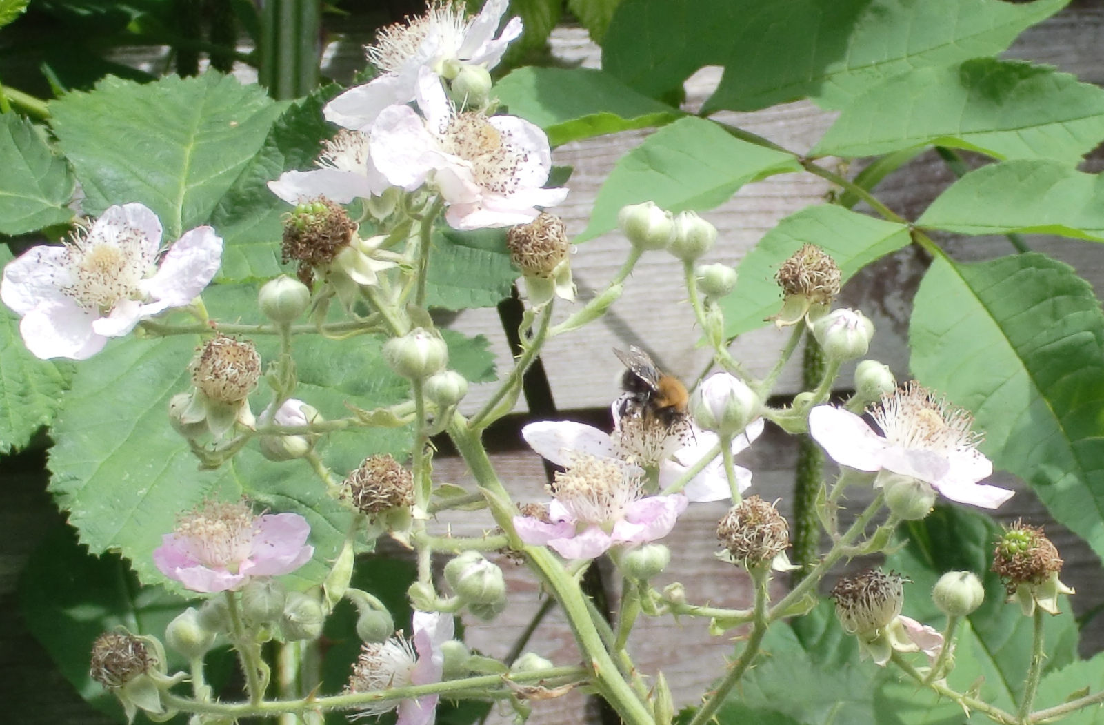 Bee pollinating Blackberry in an English garden